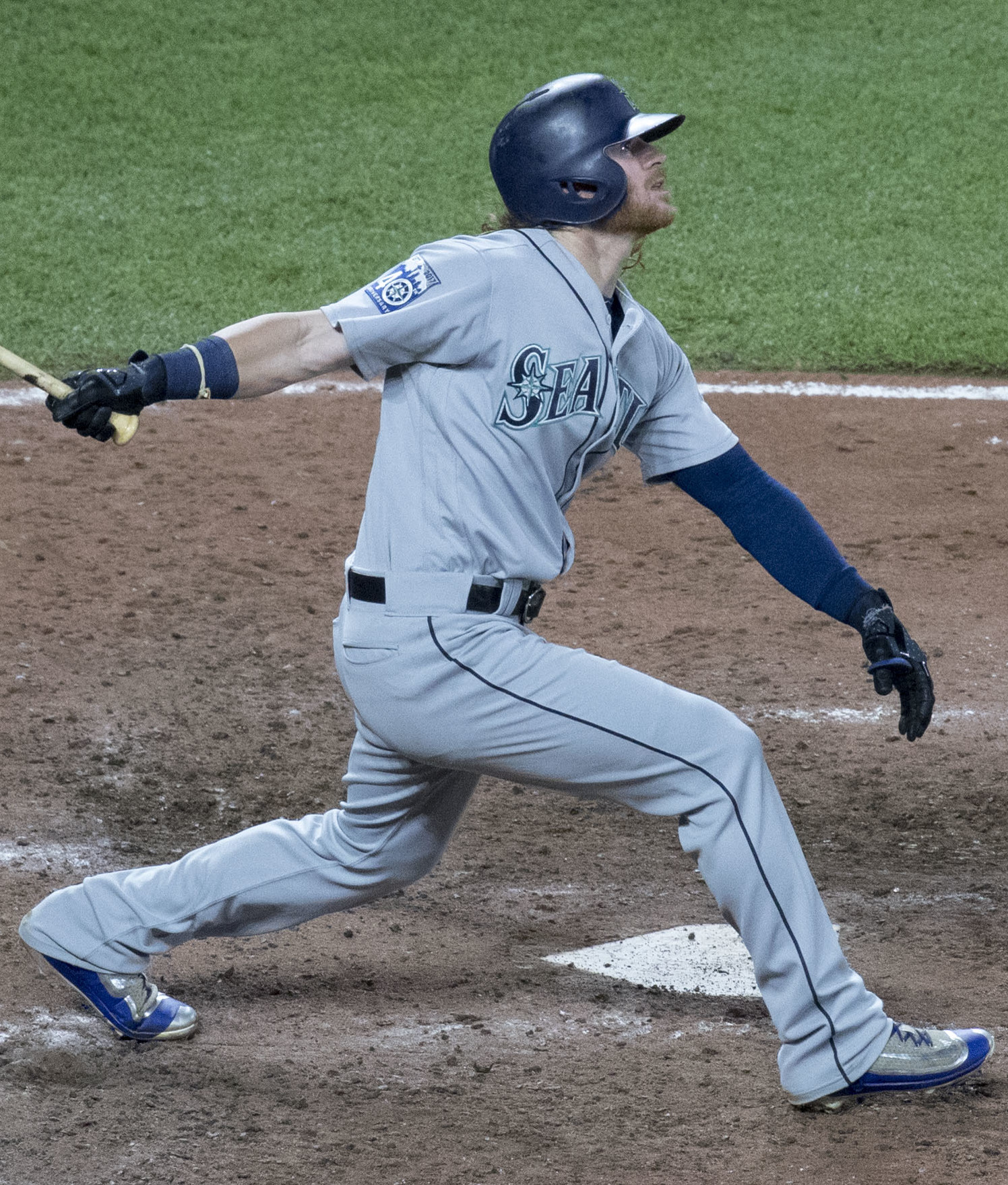 Mariners at Orioles 8/28/17